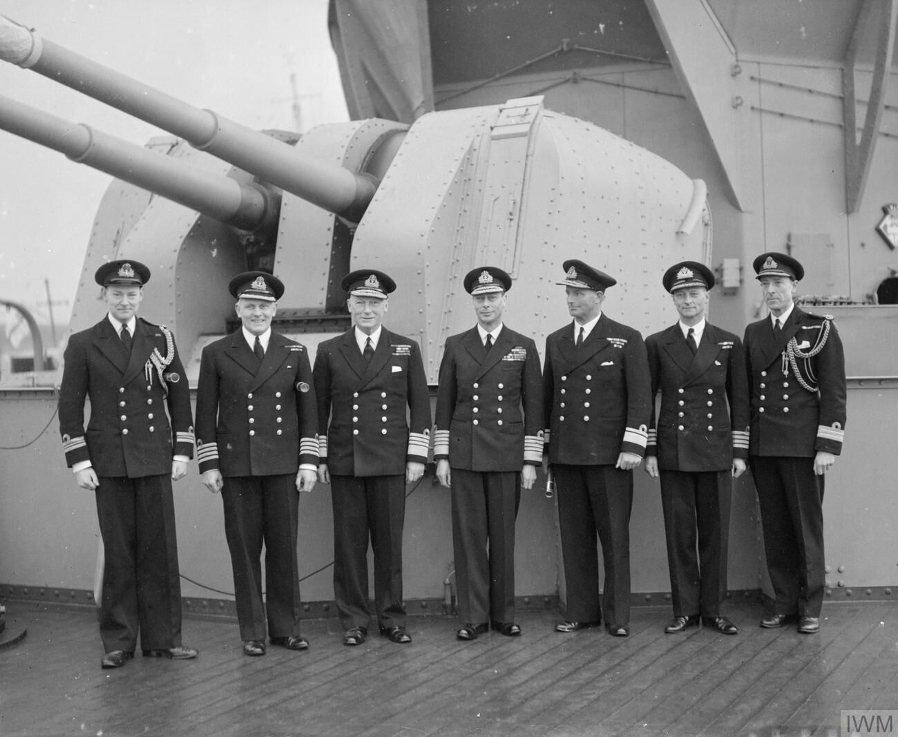 Hm the King Pays 4-day Visit To the Home Fleet. 18 To 21 March 1943, Scapa Flow, Wearing the Uniform of An Admiral of the Home Fleet the King Paid a 4-day Visit To the Home Fleet. The King photographed with Admiral Sir J Tovey, KCB, KBE, DSO, C-in-C, Home Fleet, on the King's right; Rear Admiral I G Glennie, RAD, on the King's left; Captain Pizey, CB, DSO, second from left, and Staff Officers aboard HMS TYNE.